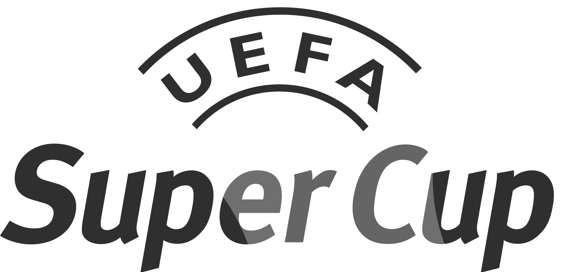 Uefa super cup logo